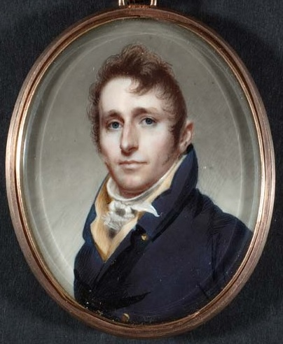 Charles H. Ruggles, New York Congressman and Judge